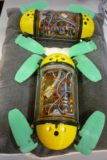 Two of four μ-CAT (also called mu-CAT, micro-CAT, u-CAT) robots that were shown at Robotex 2013 (Tallinn) and Robot Safari (London Science Museum, November 2013). Robots are made in Centre for Biorobotics, Tallinn University of Technology. These small robots are "demo versions" of a bigger robot, the U-CAT (Underwater Curious Archaeology Turtle). The U-CAT is built to help archaeologists to explore shipwrecks, for example. More about the project